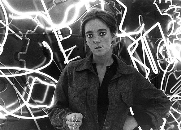 Marta Minujín inside La Menesunda, where participants were asked to go through sixteen chambers, each separated by a human-shaped entry. Led by neon lights, groups of eight visitors would encounter rooms with television sets at full blast, couples making love in bed, a cosmetics counter (complete with an attendant), a dental office from which dialing an oversized rotary phone was required to leave, a walk-in freezer with dangling fabrics (suggesting sides of beef), and a mirrored room with black lighting, falling confetti, and the scent of frying food.